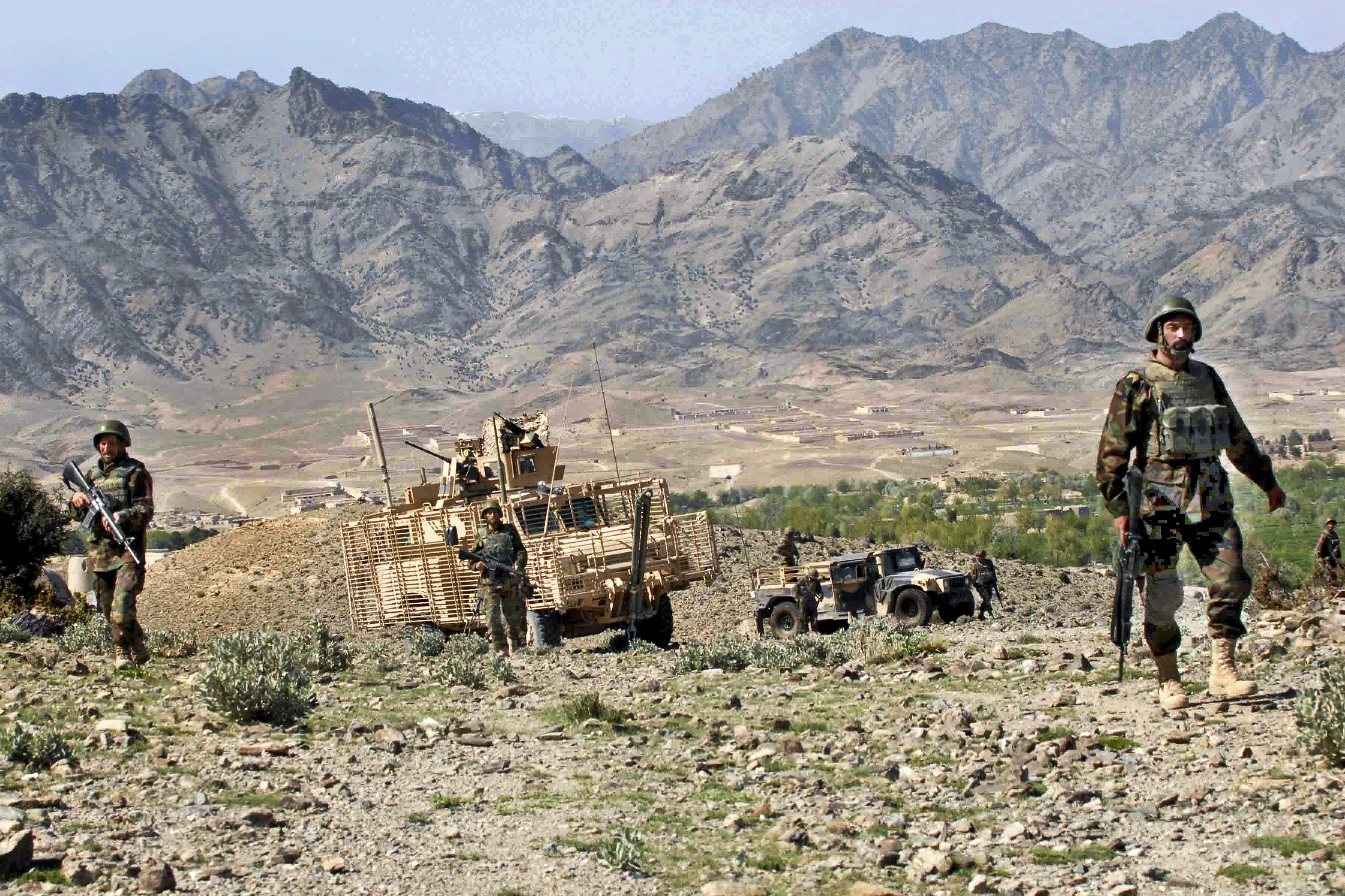 Afghan Army soldiers patrol near the village of Kusheh, Afghanistan, March 24, 2010. The Afghan soldiers have been partnering with U.S. Army Soldiers to help bring stability to part of Khost province. The U.S. Soldiers are assigned to the !st Squadron, 33rd Cavalry Regiment. U.S. Army photo by Spc. Spencer Case See more at